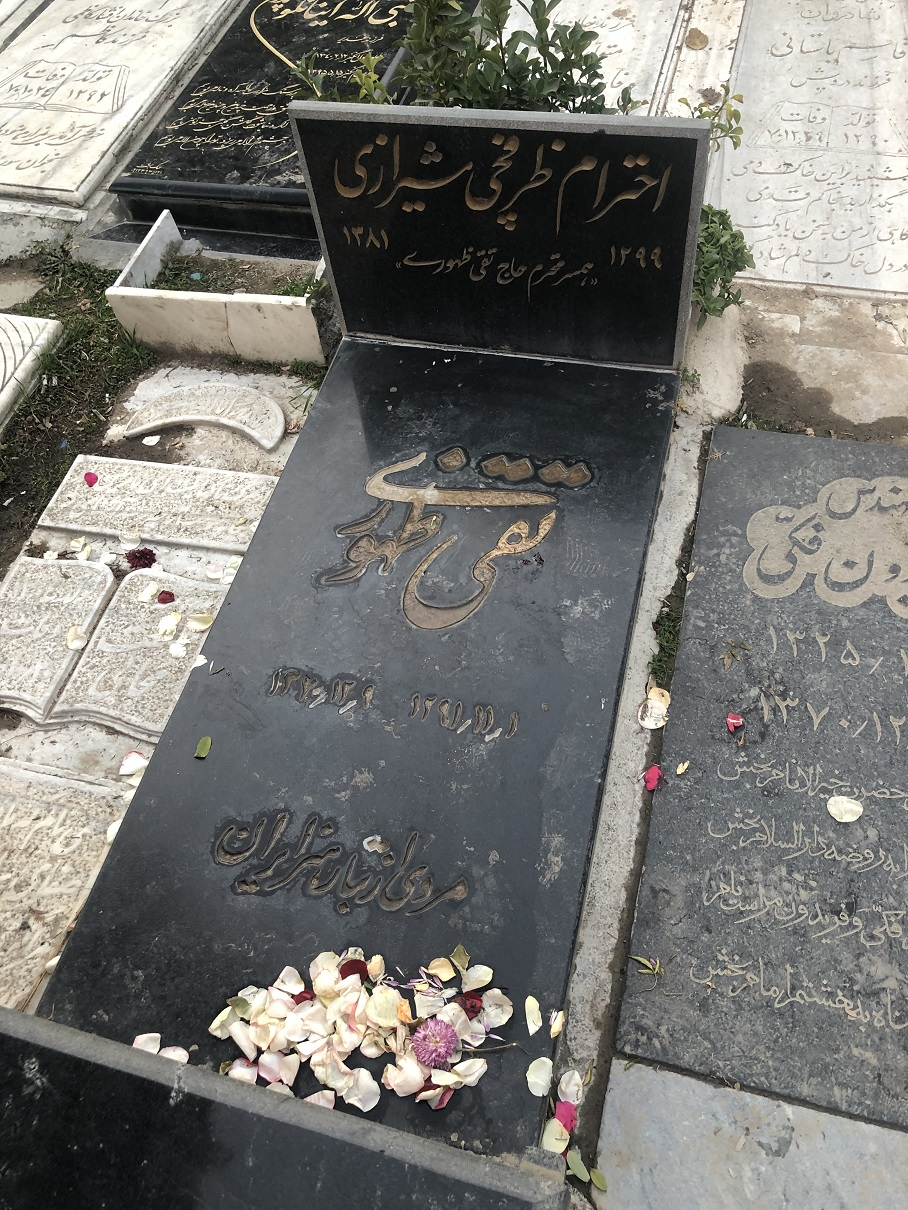 Emamzadeh Taher